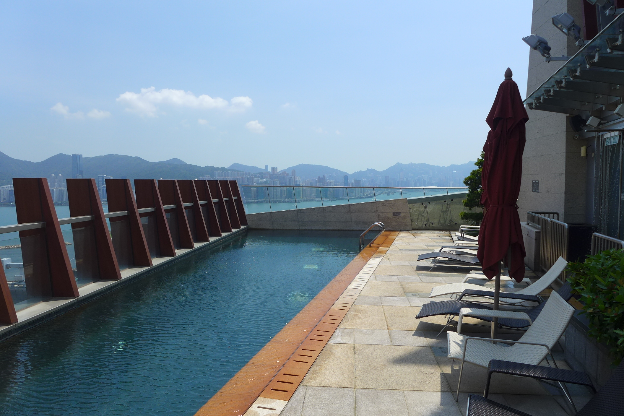 L'hotel élan Roof Swimming Pool